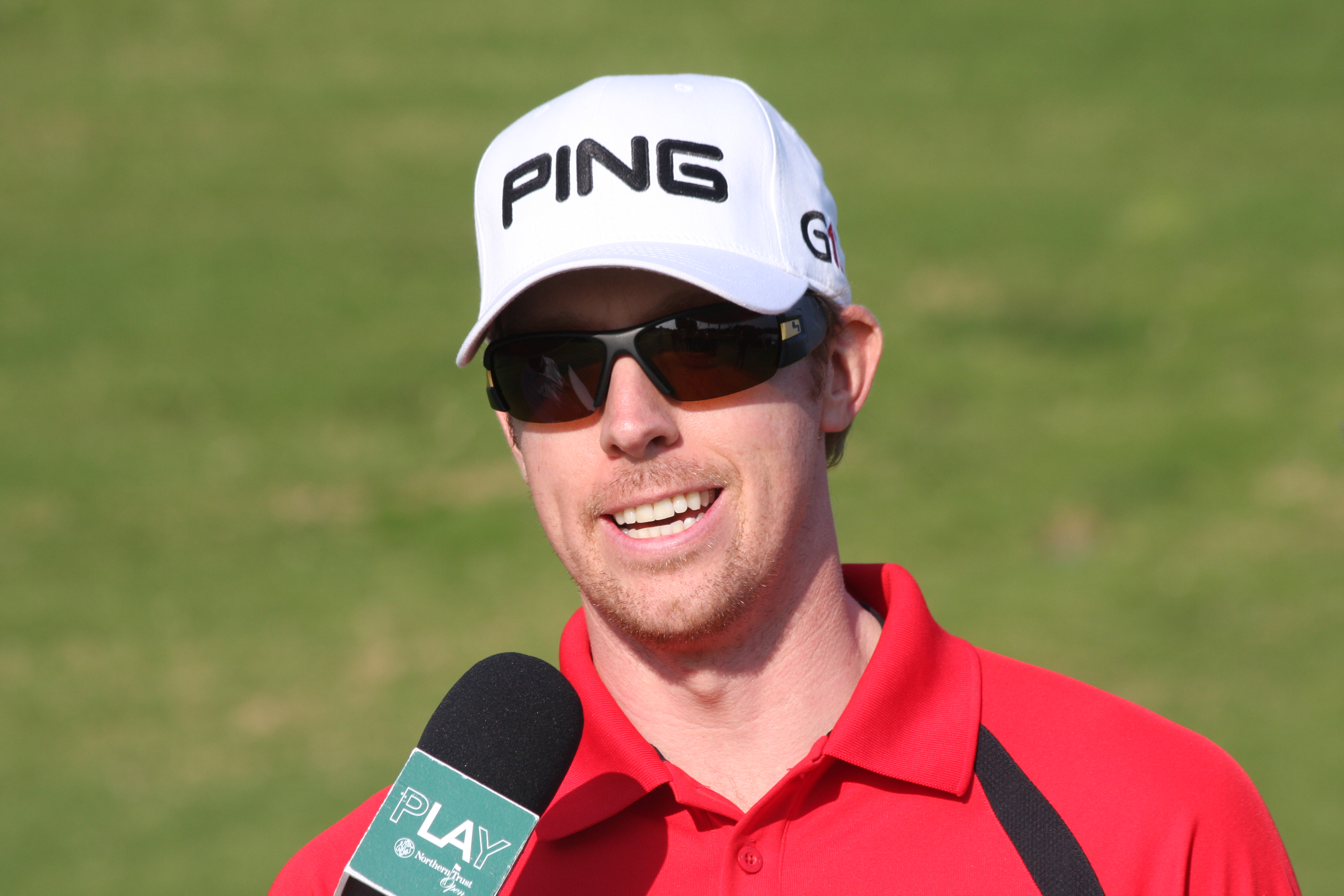 IMG_0520, Hunter Mahan at a golf tournament. IMG_0520